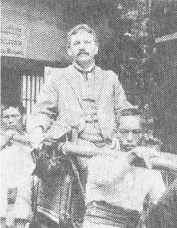 Julius Scriba